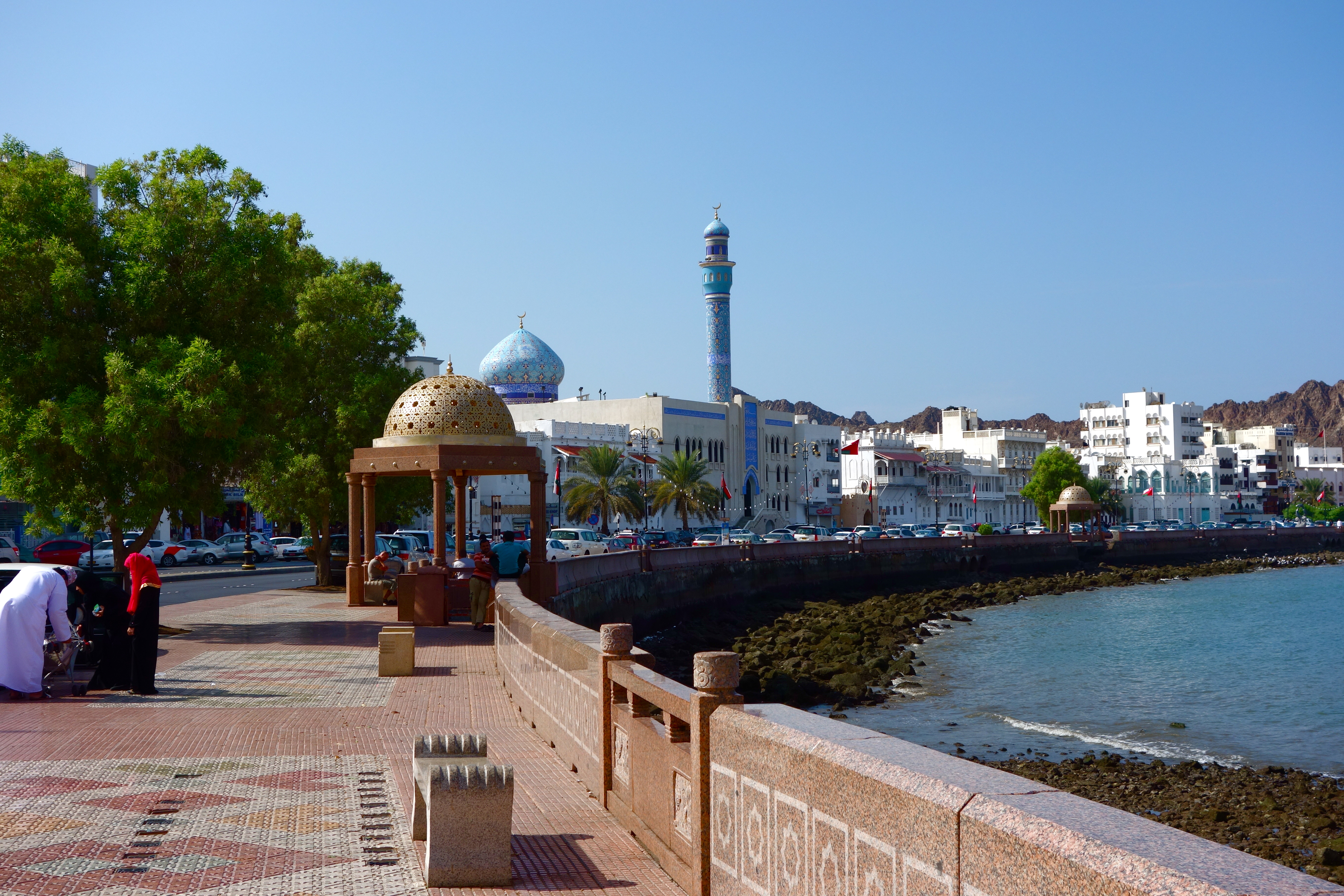 The Corniche